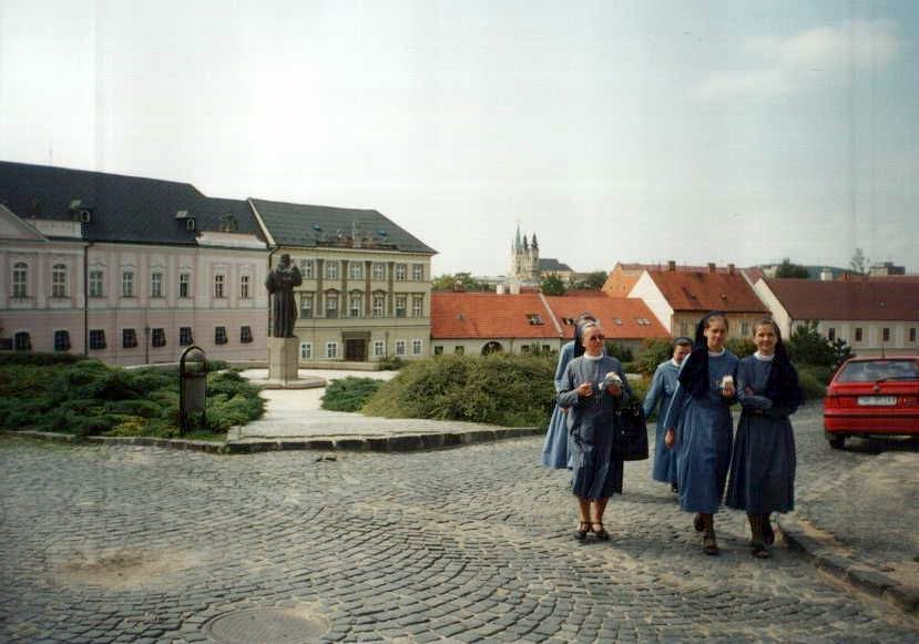 Author: Wojsyl